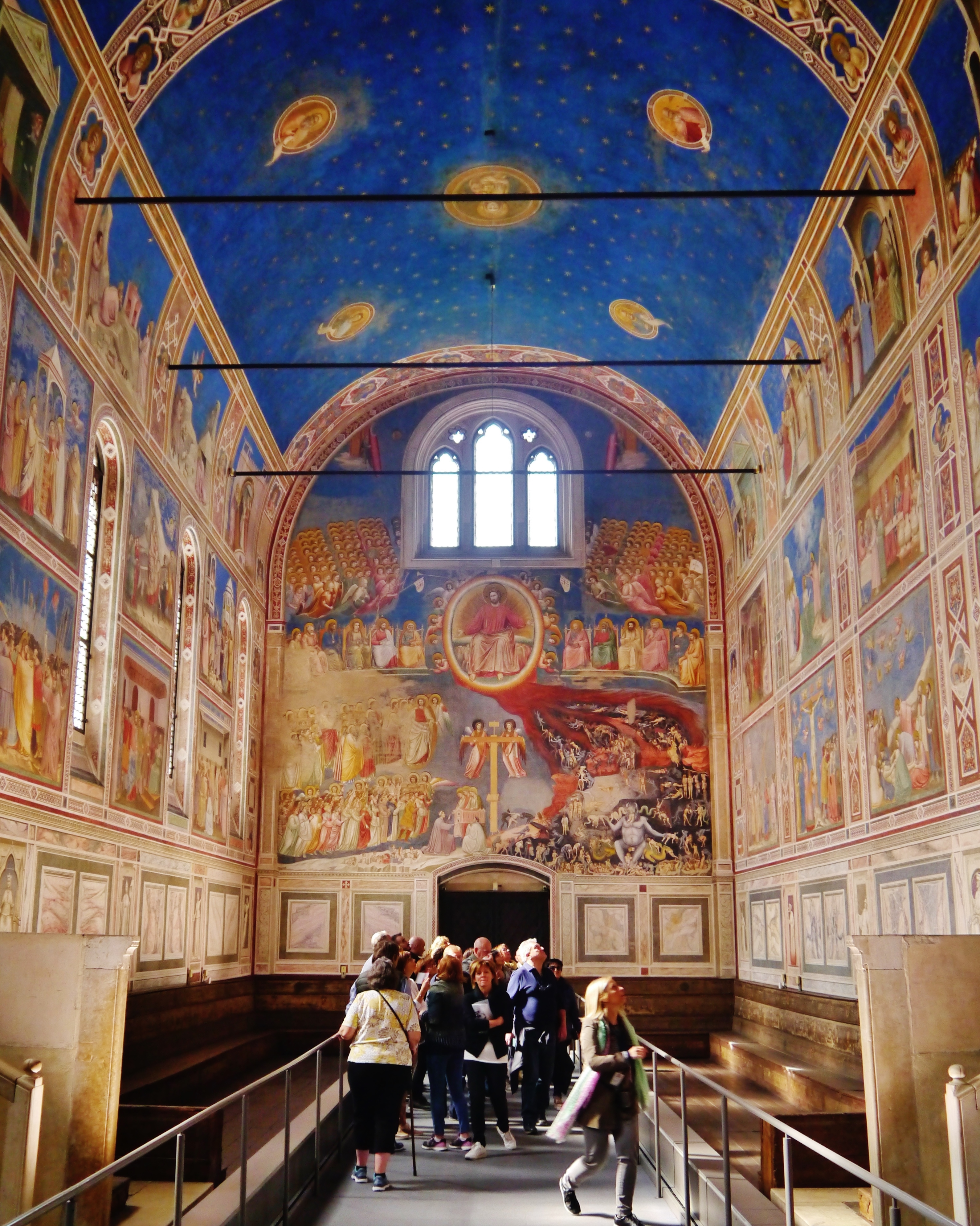 Nave of the Scrovegni Chapel, Padua, Province of Padua, Region of Veneto, Italy